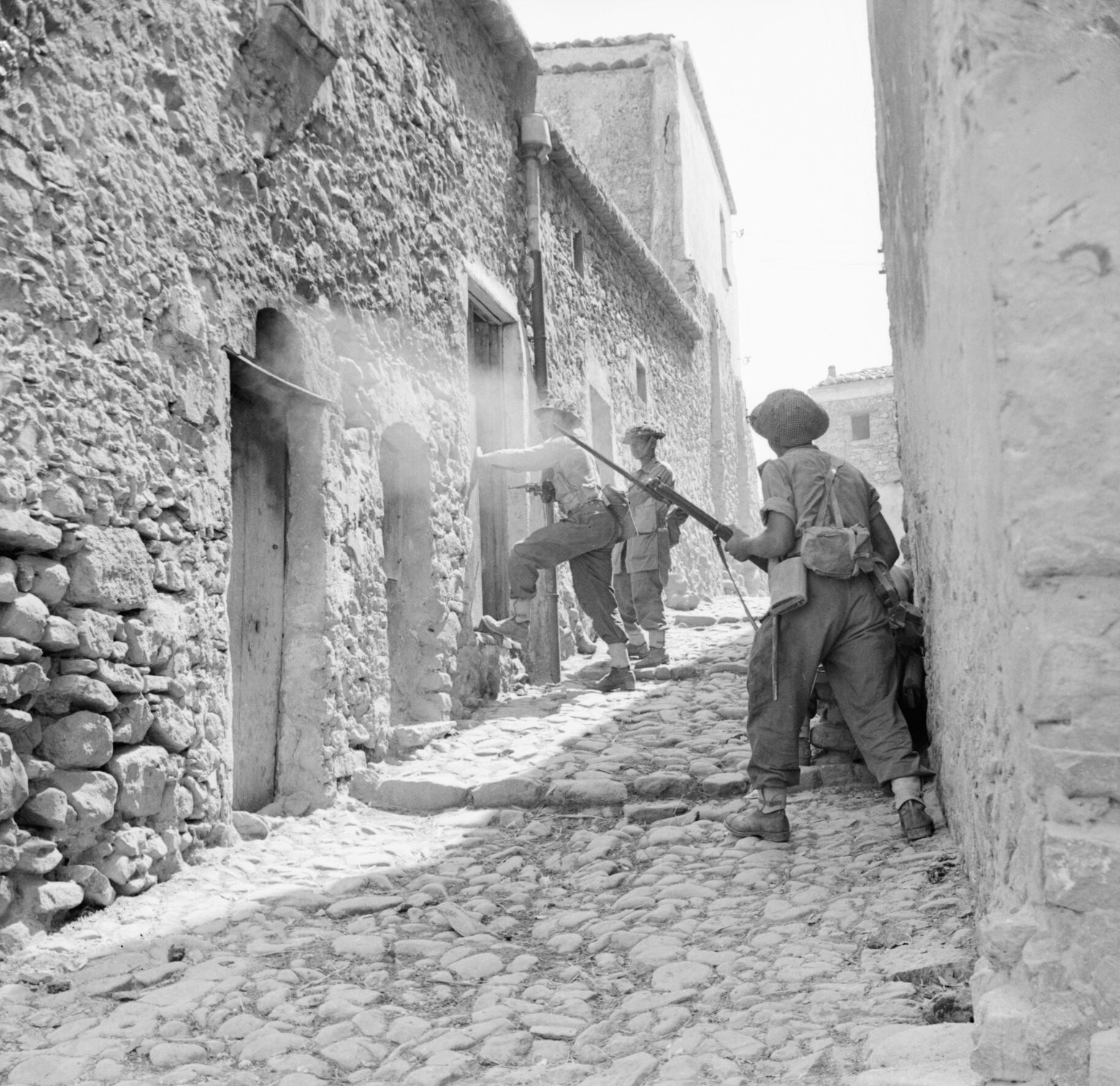 Men of the 6th Inniskillings, 38th Irish Brigade, searching houses during mopping up operations in Centuripe, Sicily, August 1943. Men of the 6th Inniskillings, 38th Irish Brigade, searching houses during mopping up operations in Centuripe, August 1943.